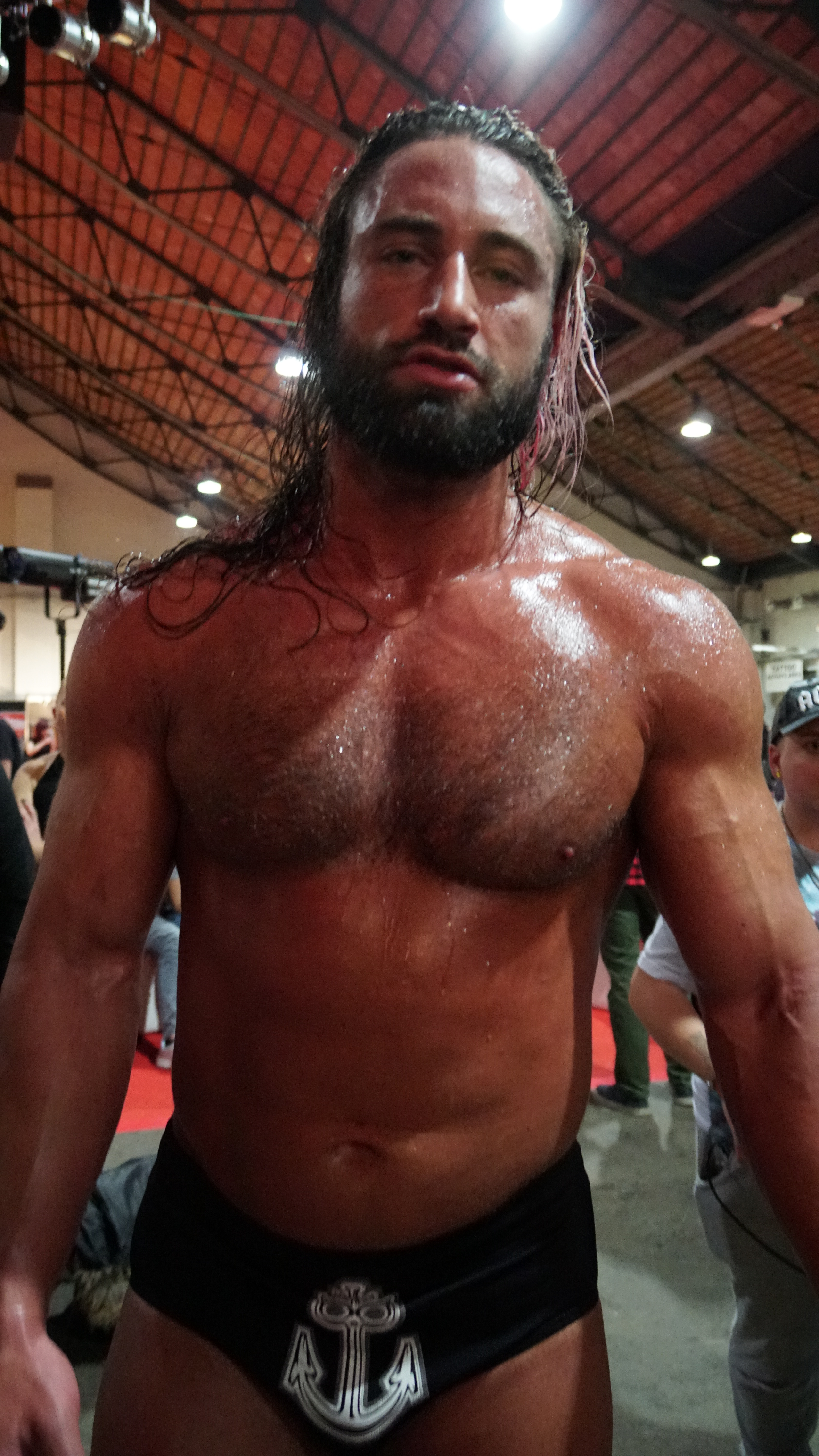 The International Brussels Tattoo Convention 2017 - Fight-League Pro Wrestling - VariousPhotos taken before and after the show( IBTC presente du 10 au 12 novembre 2017, la 8eme edition de la International Brussels Tattoo Convention. La convention sera honoree de la venue du modele'Makani Terror'.400 des meilleurs tatoueurs internationaux du monde sont invites a immortaliser sur votre corps leur plus beaux art du tatouage.Le week-end entier sera rempli de spectacles, des ventes aux encheres d'art, des boutiques sympas et des echoppes , des acrobates aeriens, des concours de tatouage et bien plus encore! )